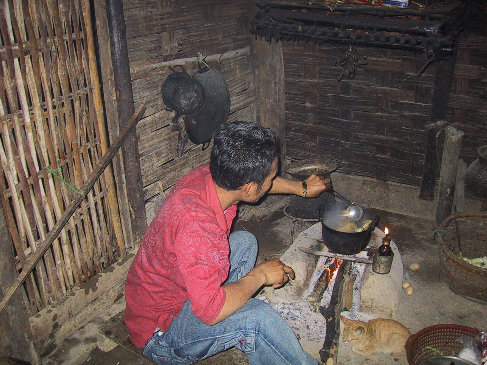 Man preparing food on a cooking fire in a dark kitchen at home with a candle, in a village in Laos